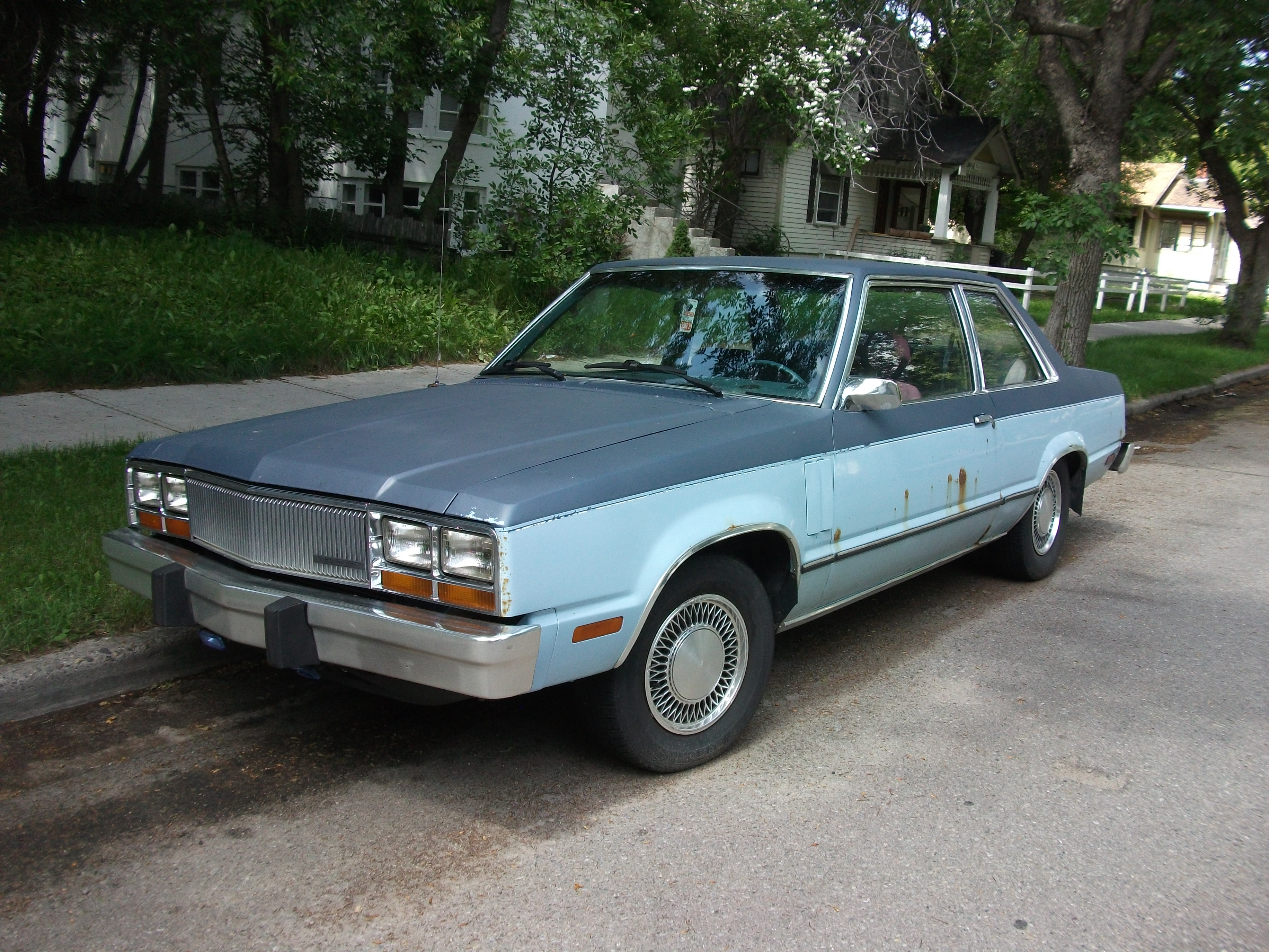 front 3/4 view on late 1970s Mercury Zephyr 2-door sedan.